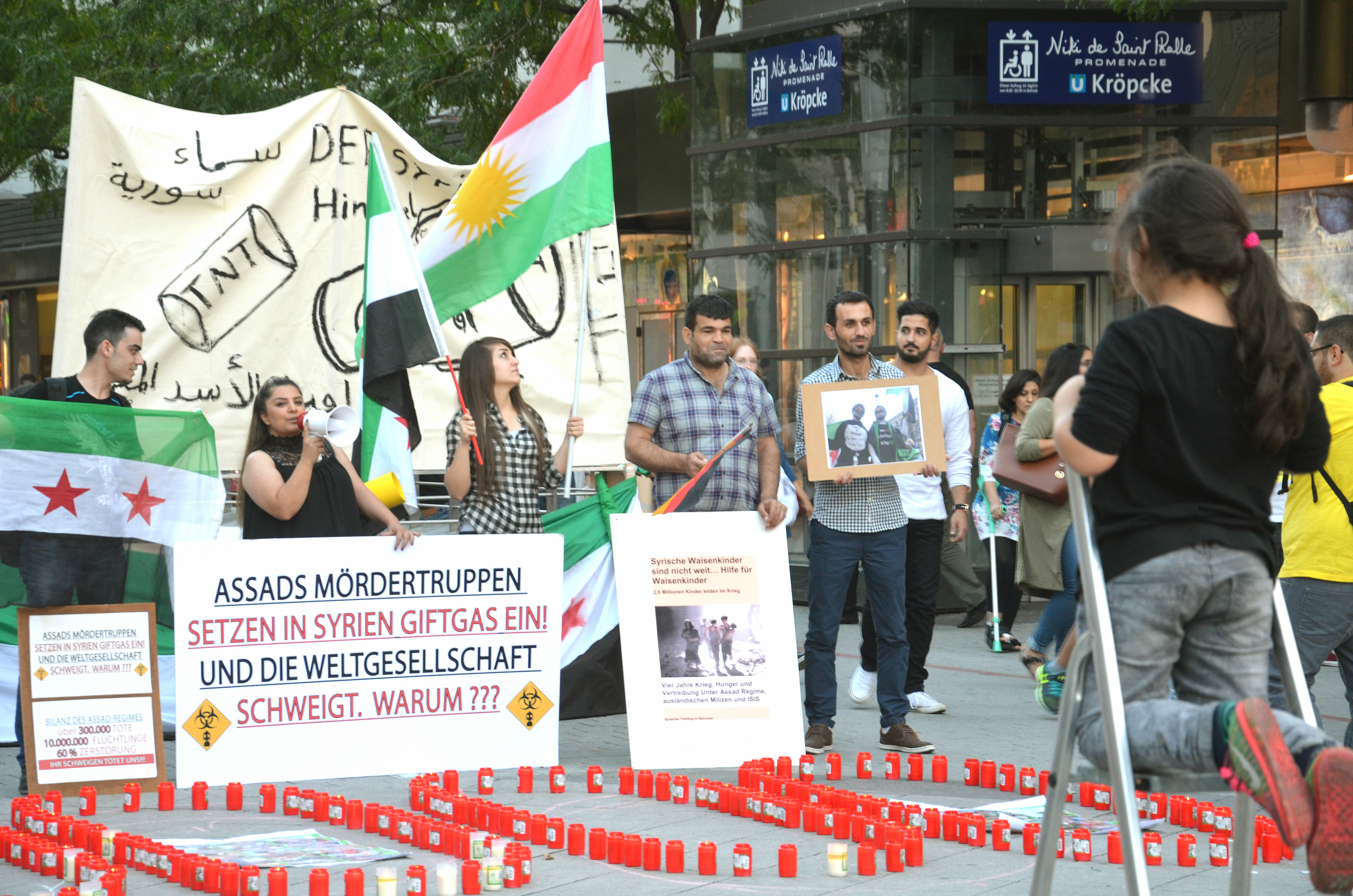 On August, 21th 2015 members of the Syrian community of Hannover remembered to the Ghouta chemical attack during the Syrian Civil War ...